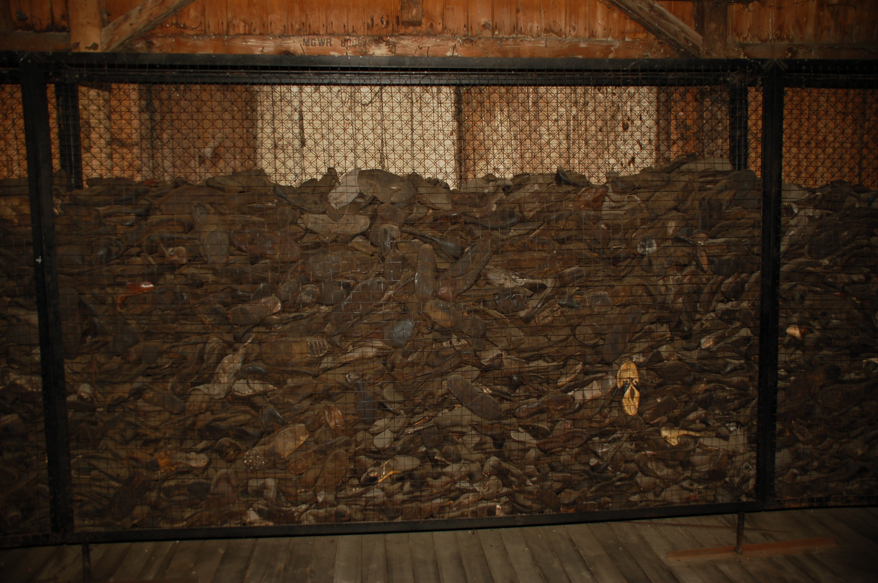 Shoes, as used by the prisioners